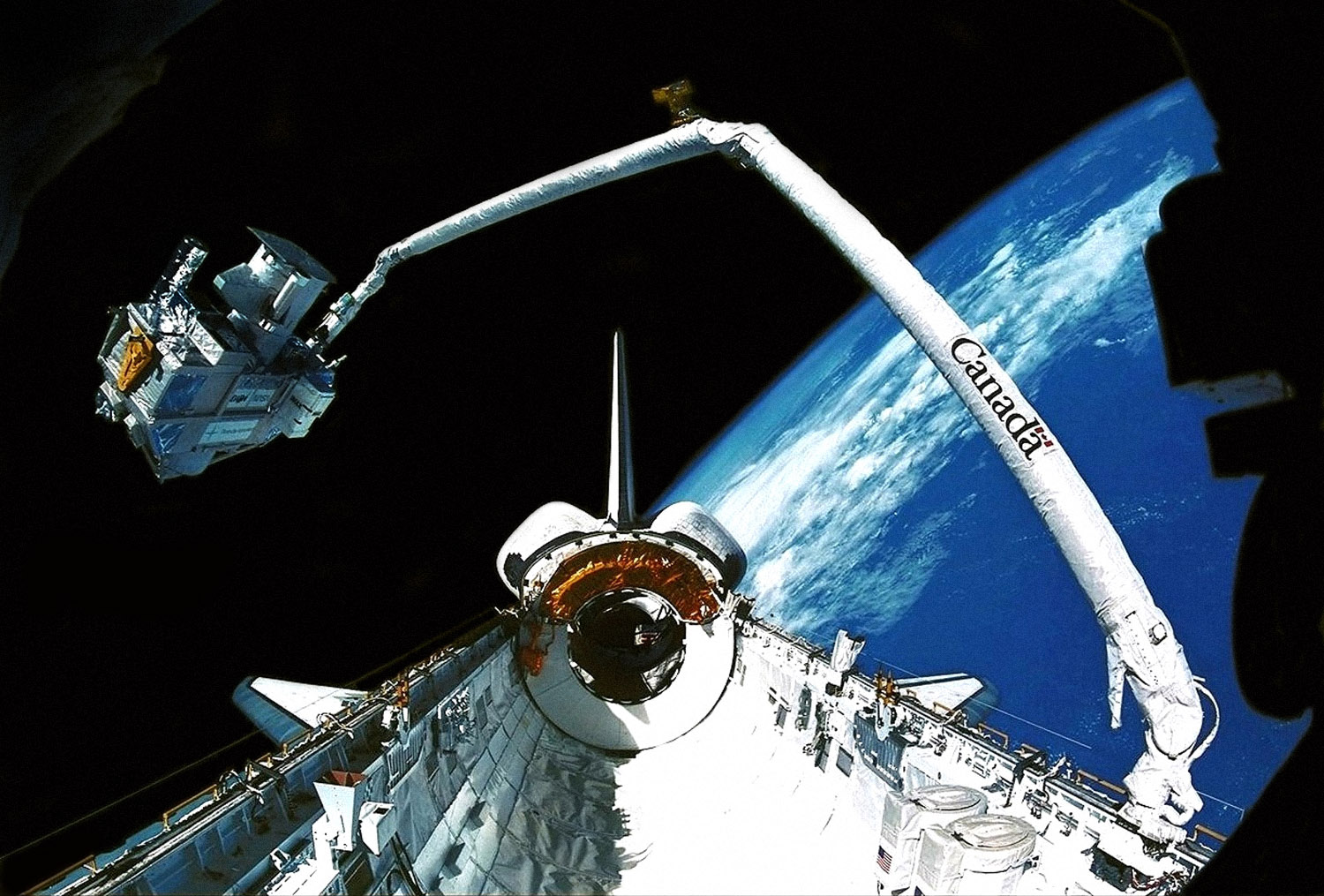 The in-cabin IMAX camera views the deployment of the SPAS-ORFEUS satellite during mission STS-51/Discovery.